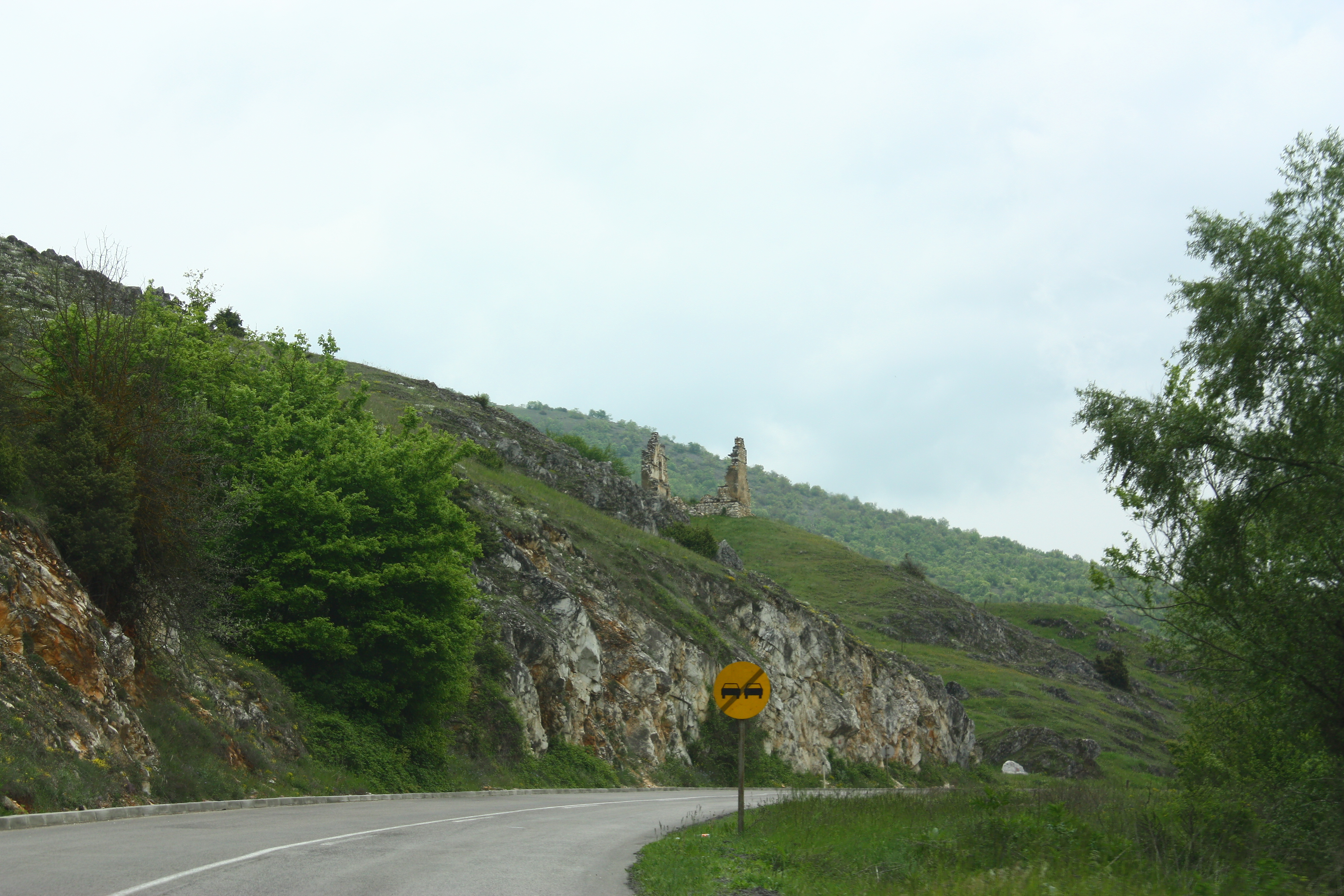 Porečie, Macedonia